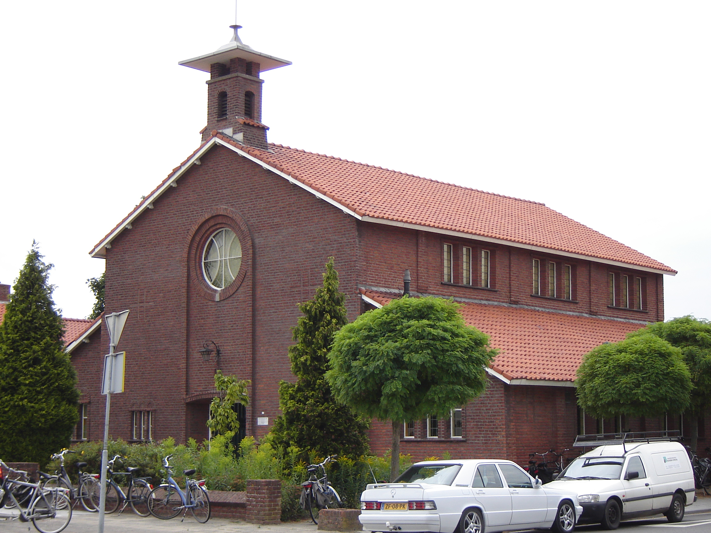 Church of the Reformed Churches Liberated in Zaamslag. Zaamslag, Terneuzen, Zeeland, Netherlands.